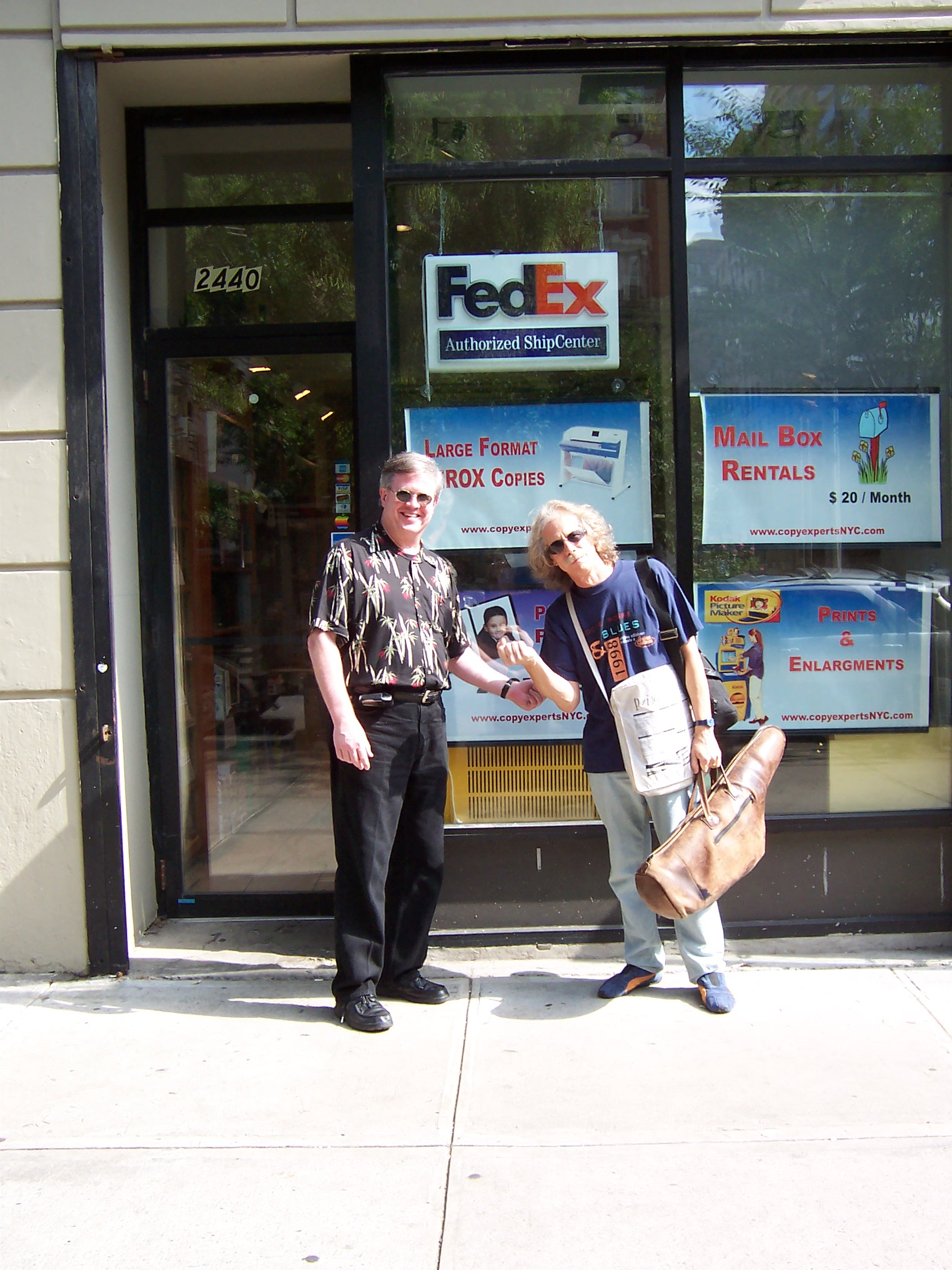 Left to Right: Ray Reach and Lou Marini in New York, 2004.